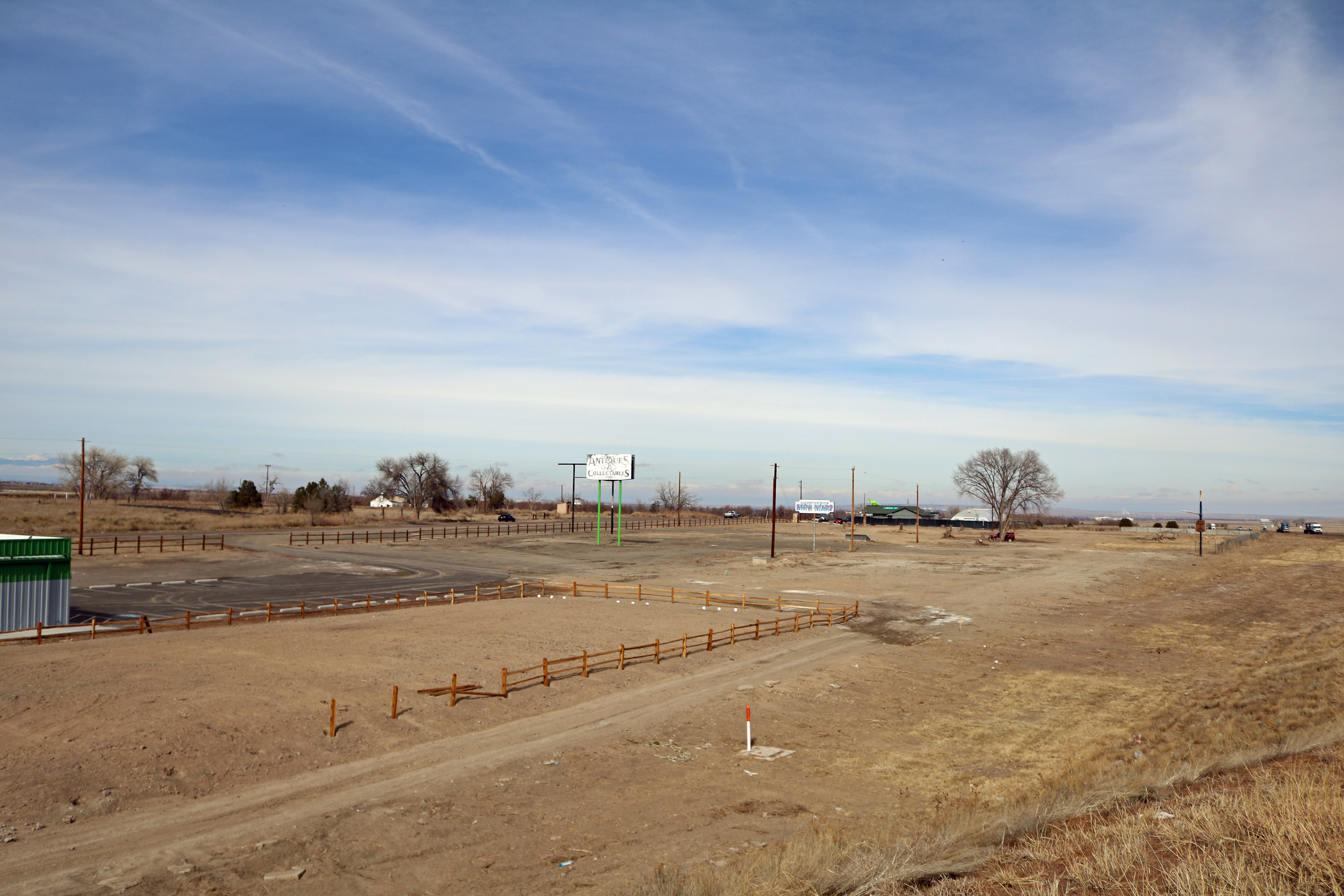 A view of Stem Beach, Colorado, in Pueblo County.The view is towards the west northwest from the top of the Stem Beach off ramp on southbound Interstate 25. Cars traveling southbound on the interstate can be seen at the far right.